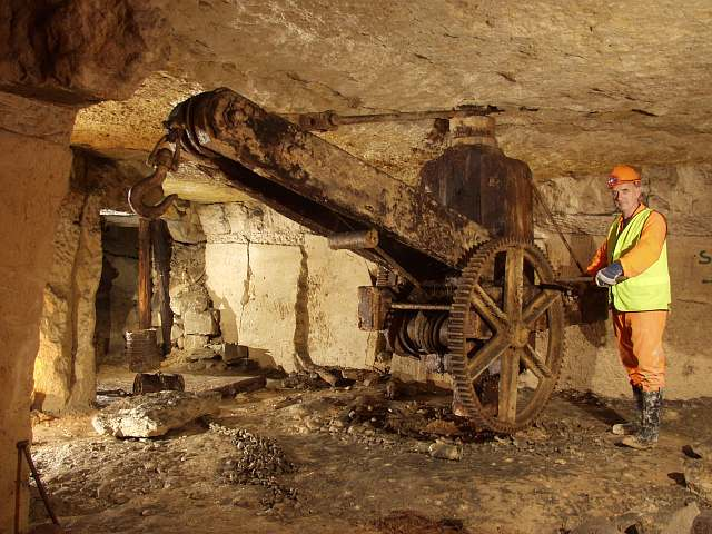 Old Crane This is taken in Freshford Quarry and shows one of the cranes used in this quarry. Because of the height of the workings short cranes had to be used in conjunction with low wagons. These workings are also part of the Bath Stone Company's workings.